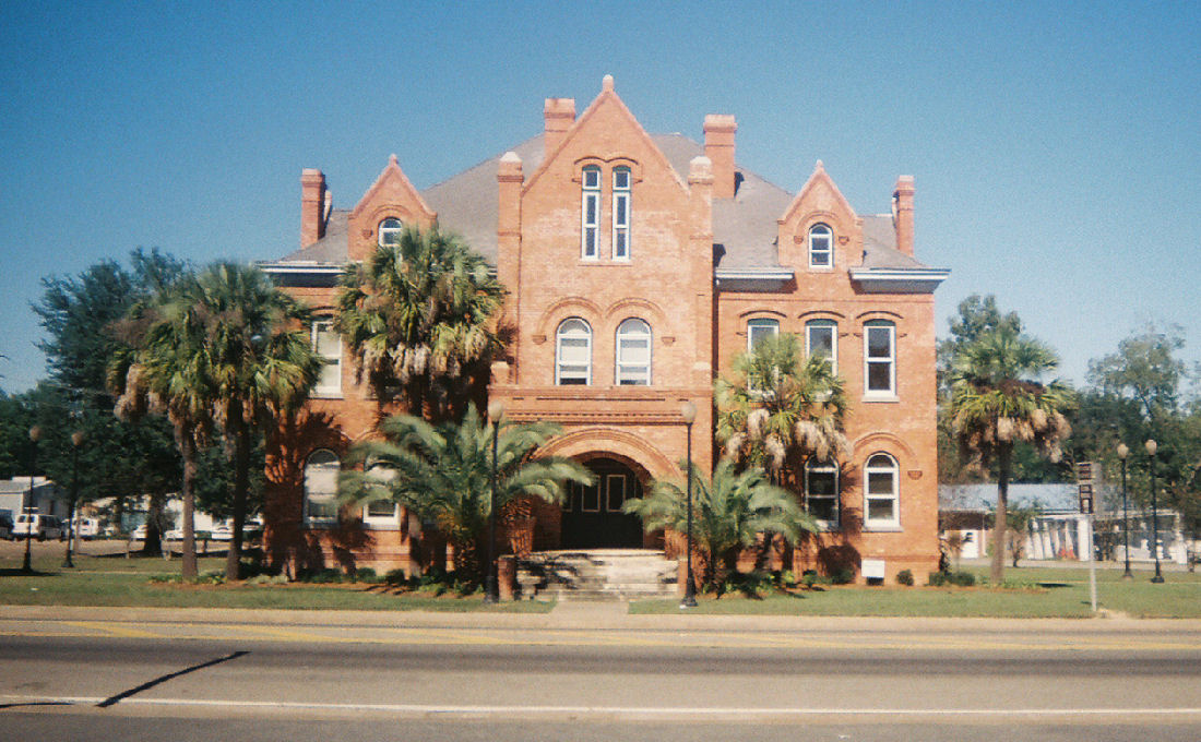 Old Calhoun County Courthouse in Blountstown, Florida